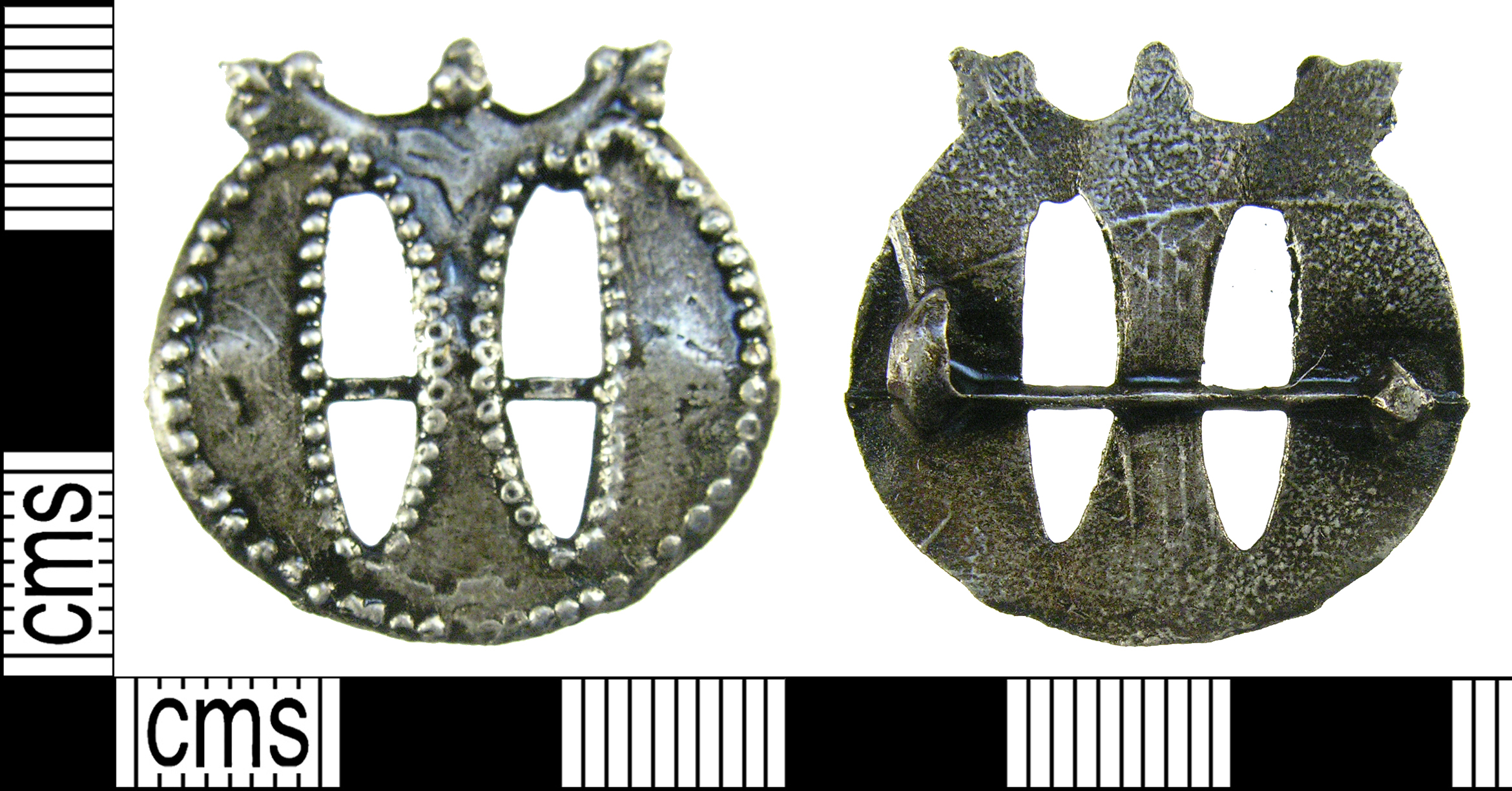 A medieval cast lead alloy monogram of Maria pilgrim badge. The badge is in the shape of a lombardic m with crown above. The crown is formed of three projections; the two outer projections are trefoil and the central is a single collared knop. The outline of the 'm' has a beaded border and in the gaps between the columns of the m the casting seam can be seen. The reverse of the badge is plain; the catchplate has survived intact but only the stump of the pin remains. The badges measures 26.2mm (height) x 26.9mm (width) x 3.9mm (thickness) and weighs 2.97g. Spencer notes that letters were a common base or "framework" for pilgrim badges in the 14th and 15th century, and that the crowned m stood for "Maria, Queen of Heaven" (1998, 155).